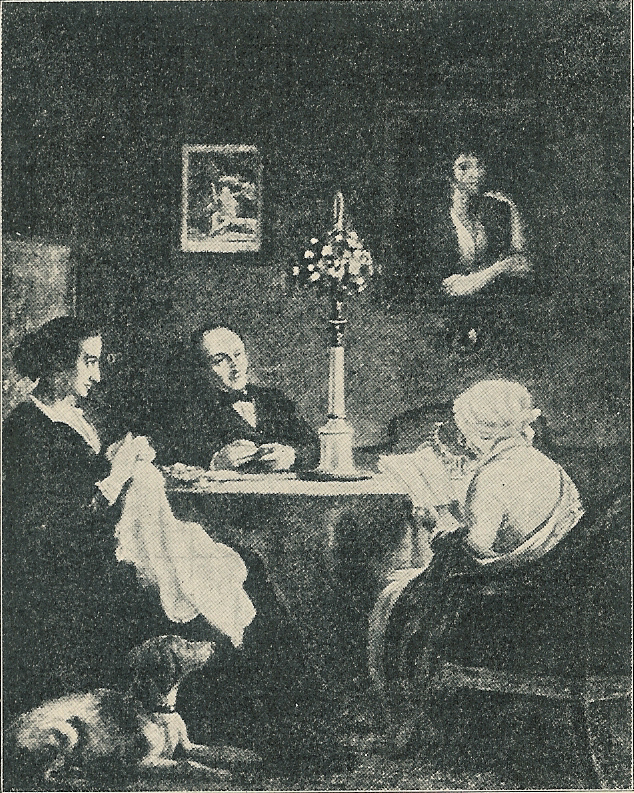 Johan Ludvig Heibergs hjem, med hustruen Johanne Louise Heiberg. Efter Vilhelm Marstrands maleri.